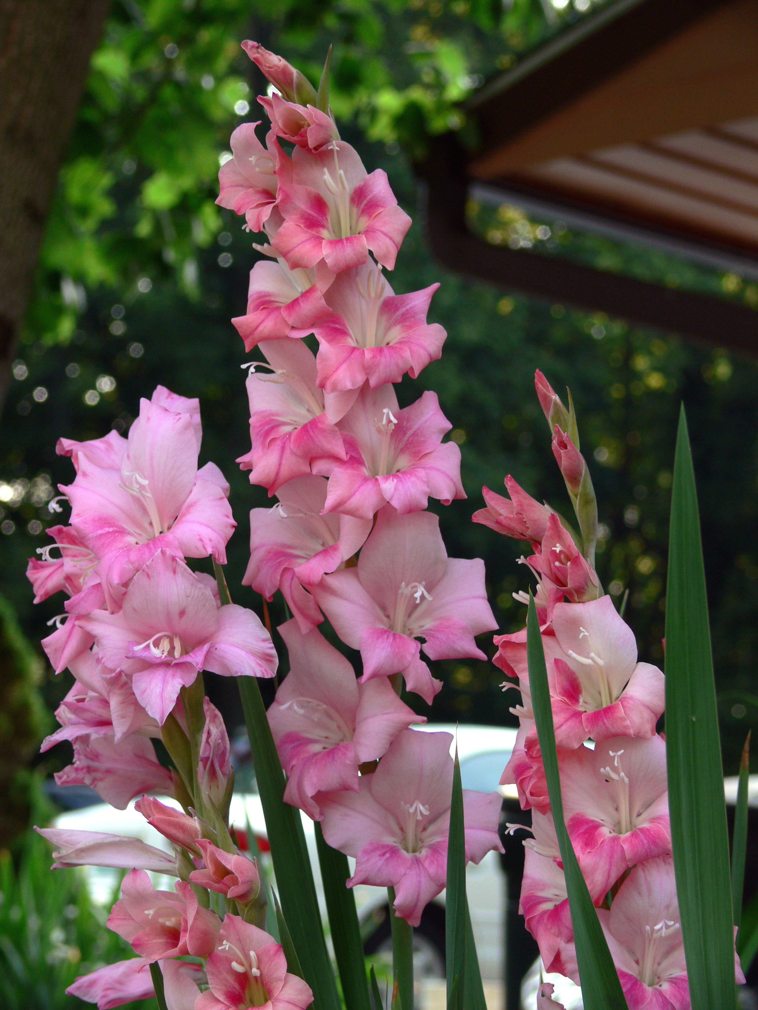 A Gladiolus flow, aka the "Sword Lilly". Self pictured.